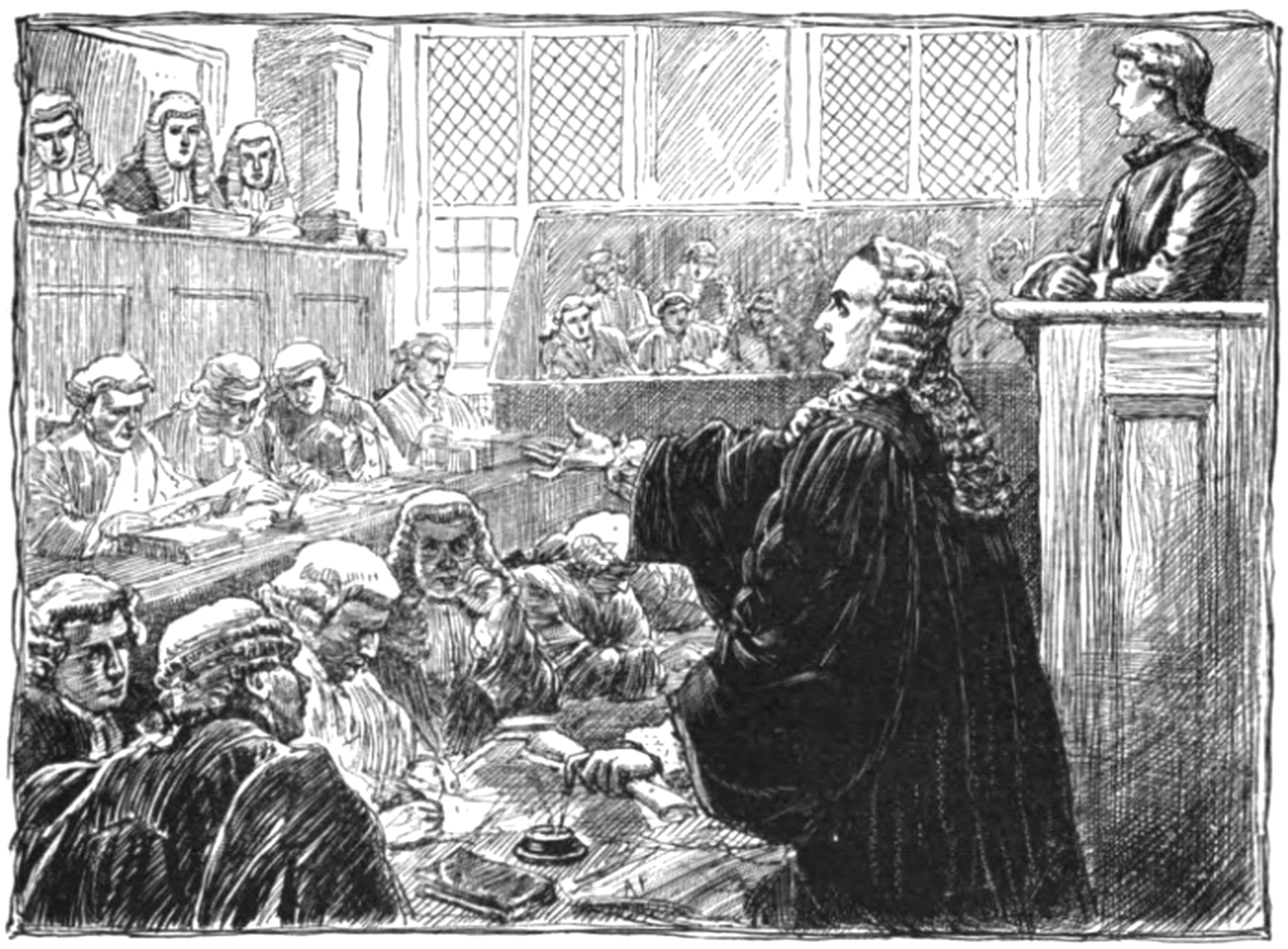 Wall Street in History 1883 book. The number shown is the book's page number and the text shown is the image caption. Click on the link to get to the full book